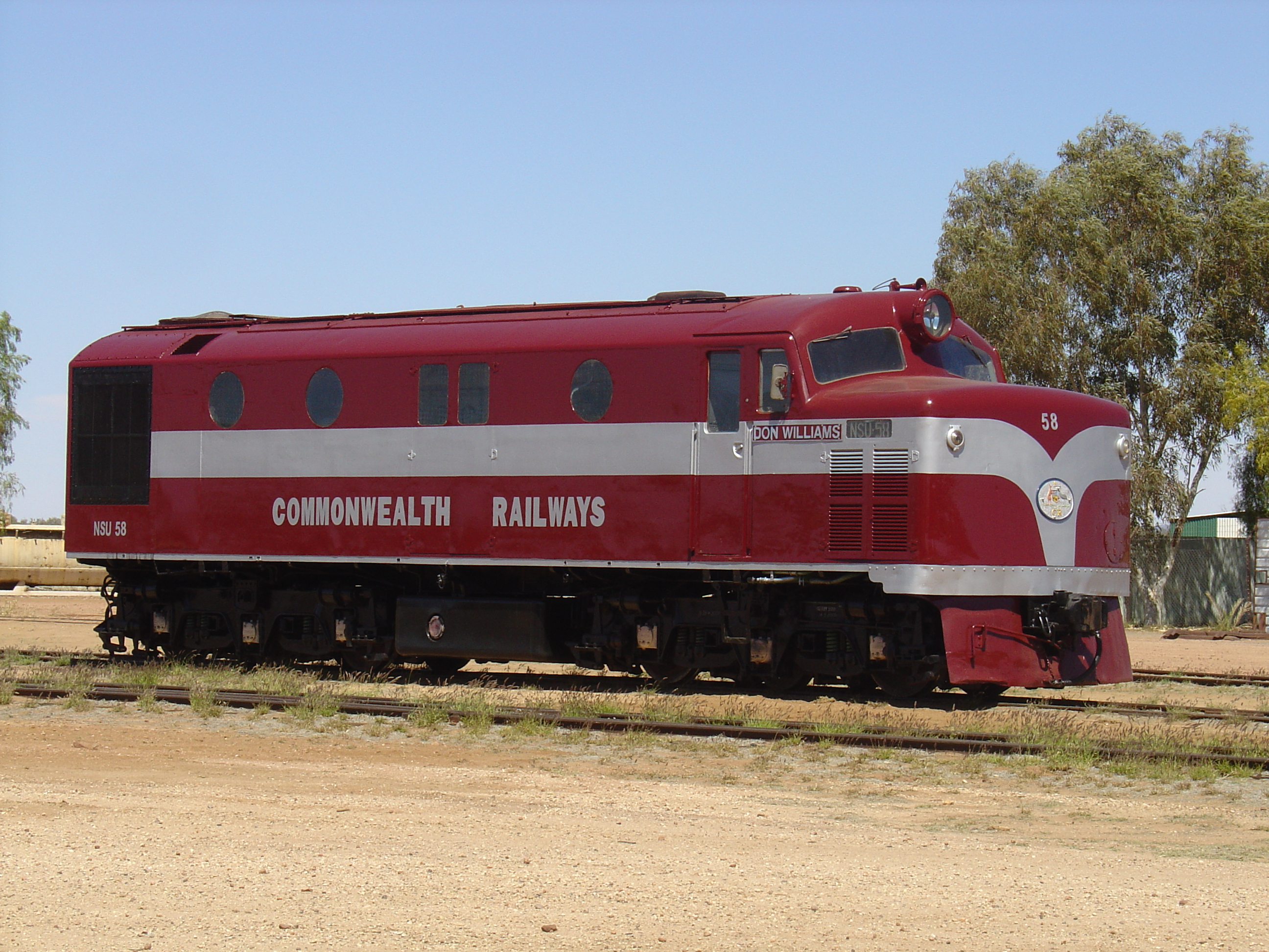 Commonwealth Railways NSU class diesel-electric locomotive no. 58 at the Old Ghan Heritage Railway and Museum, Alice Springs, Australia